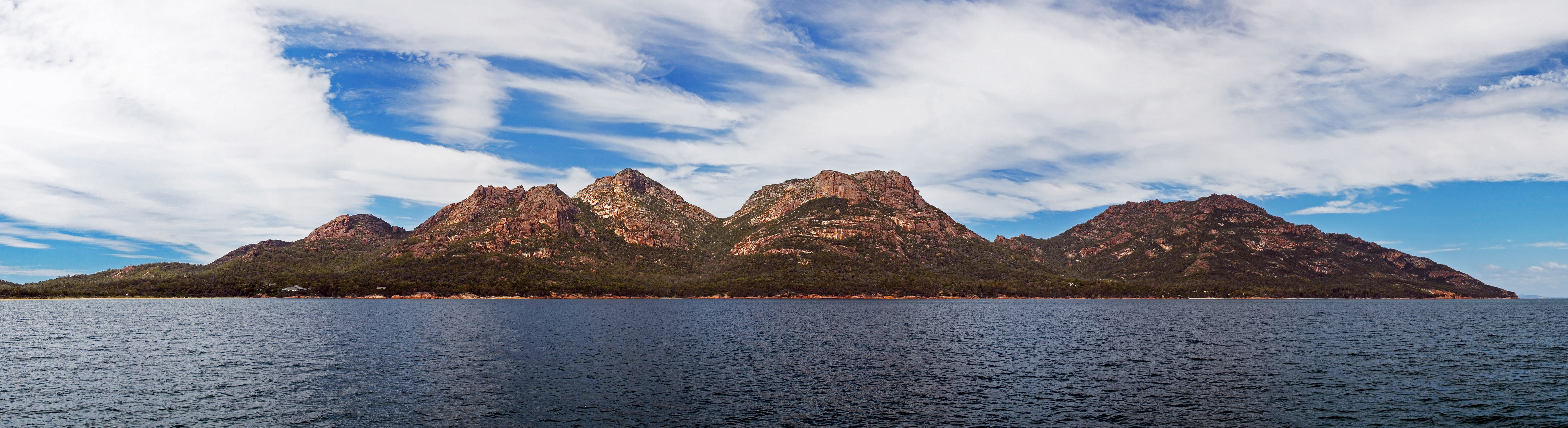 The Hazards, Freycinet Peninsula, Tasmania, Australia